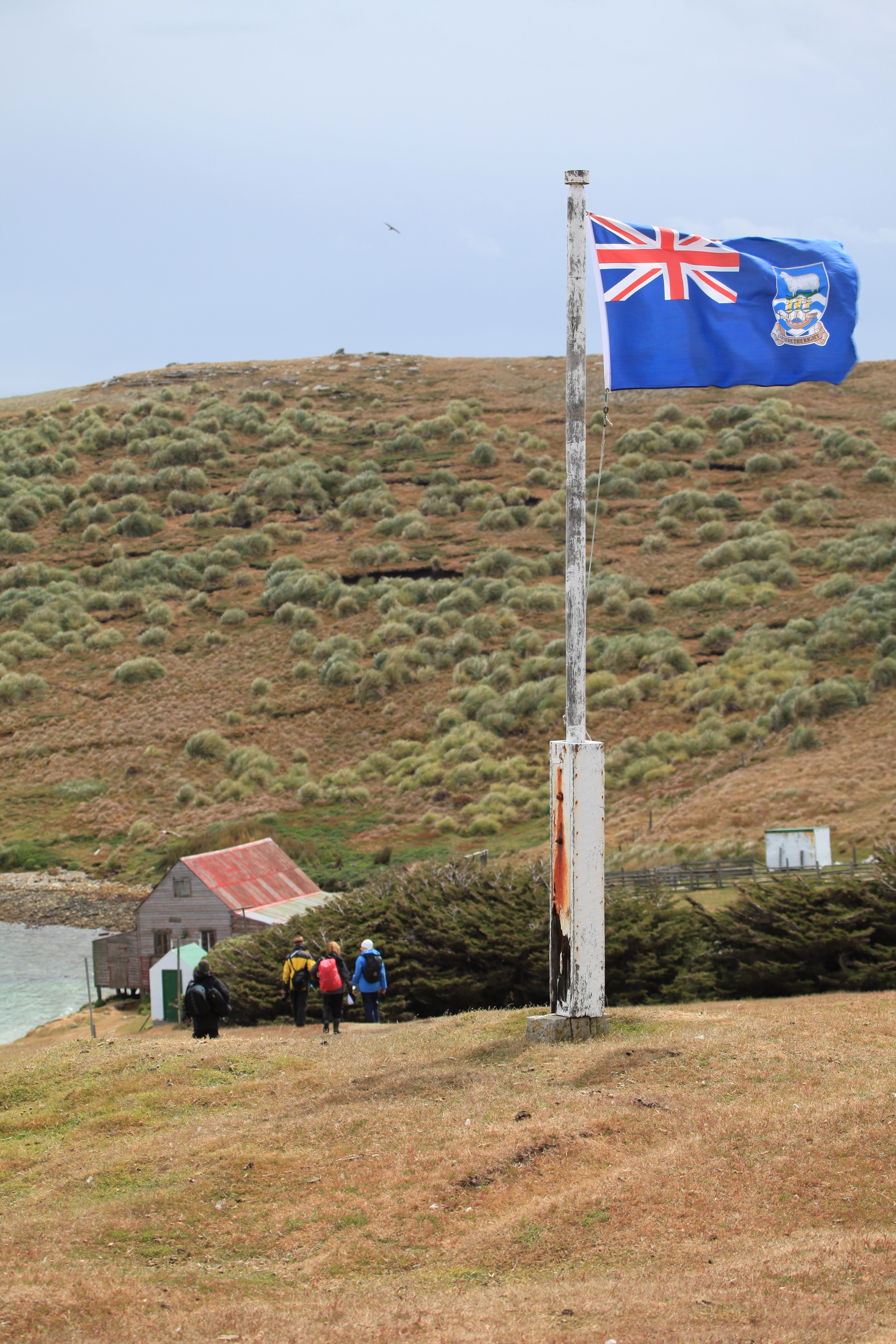 West Point Island is one of the Falkland Islands, lying west of West Falkland. It has an area of 1,255 hectares (4.85 sq mi) and is run as a sheep farm.